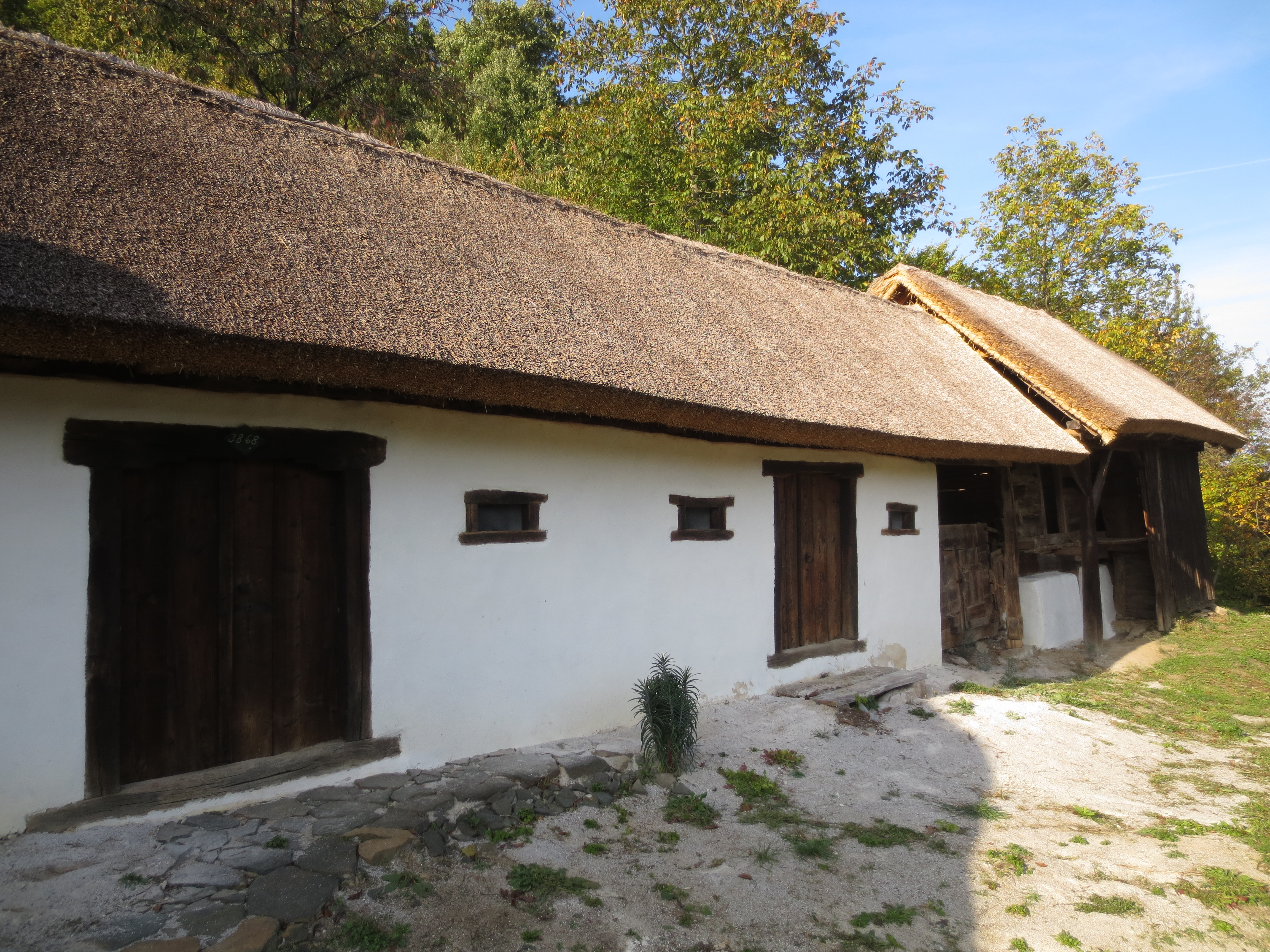 Pušnik's farmhouse, Žetale